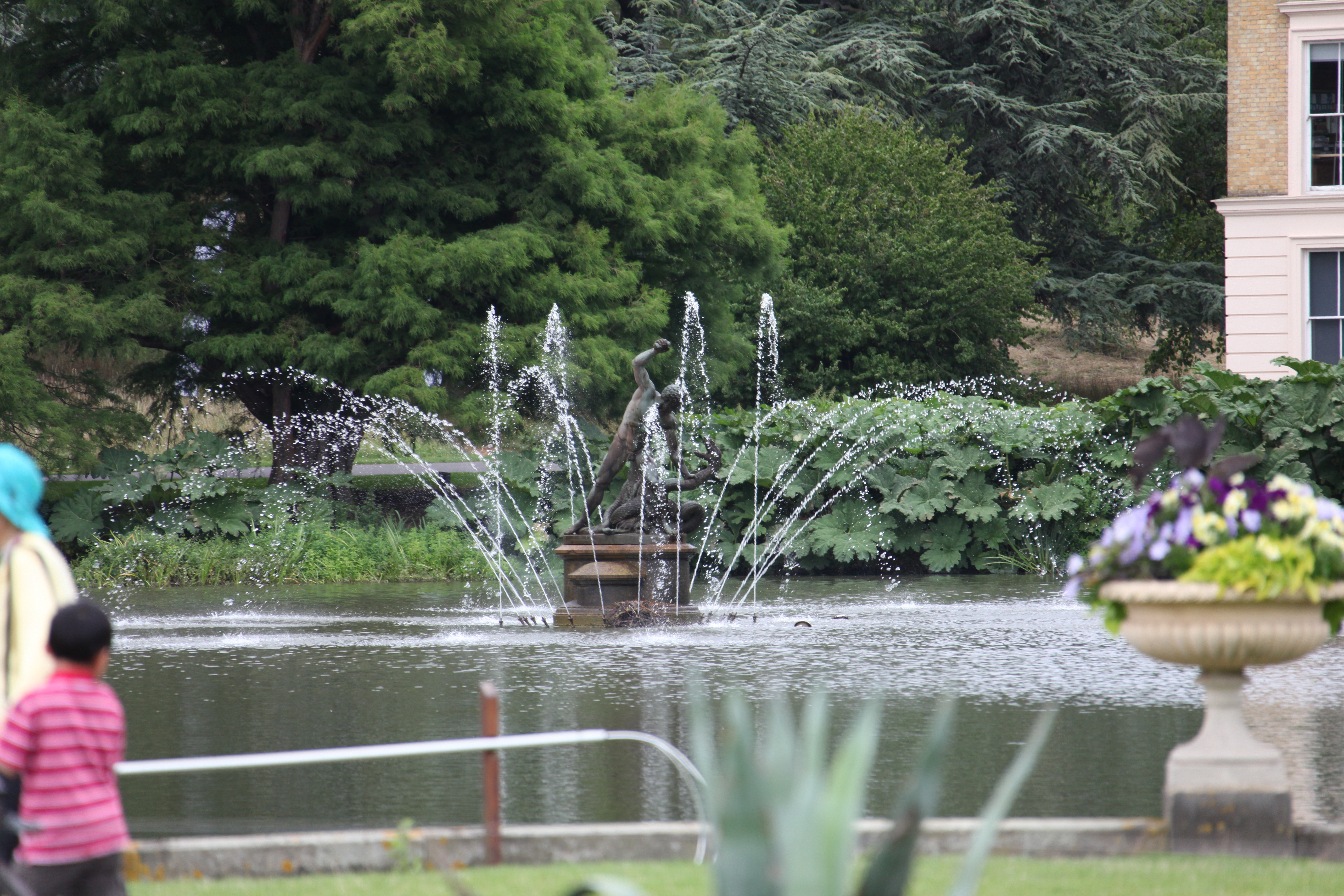 Fountain at Kew Gardens, England, with a 1/320s exposure time